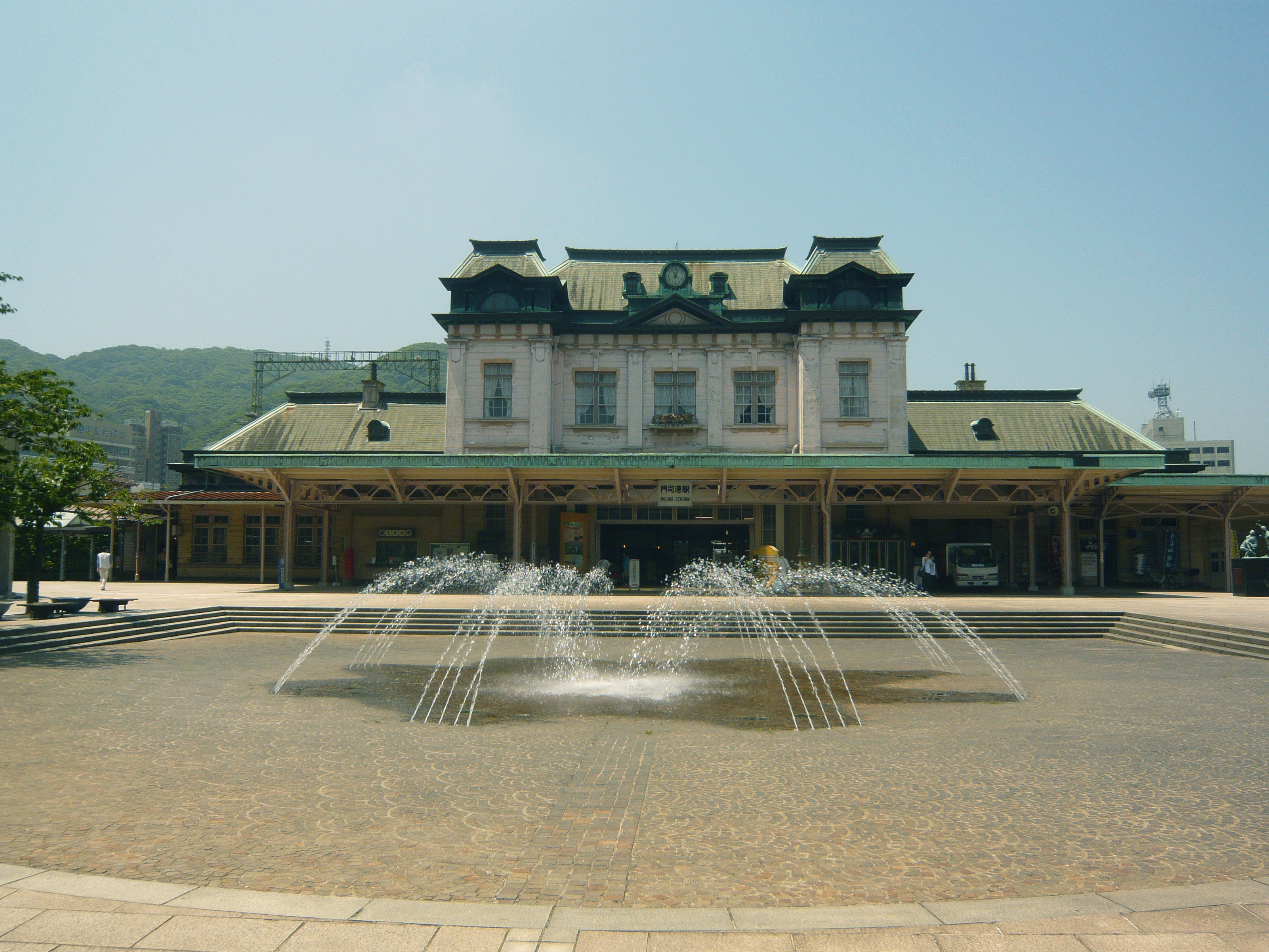 Mojikō Station, Kitakyushu, Fukuoka, Japan